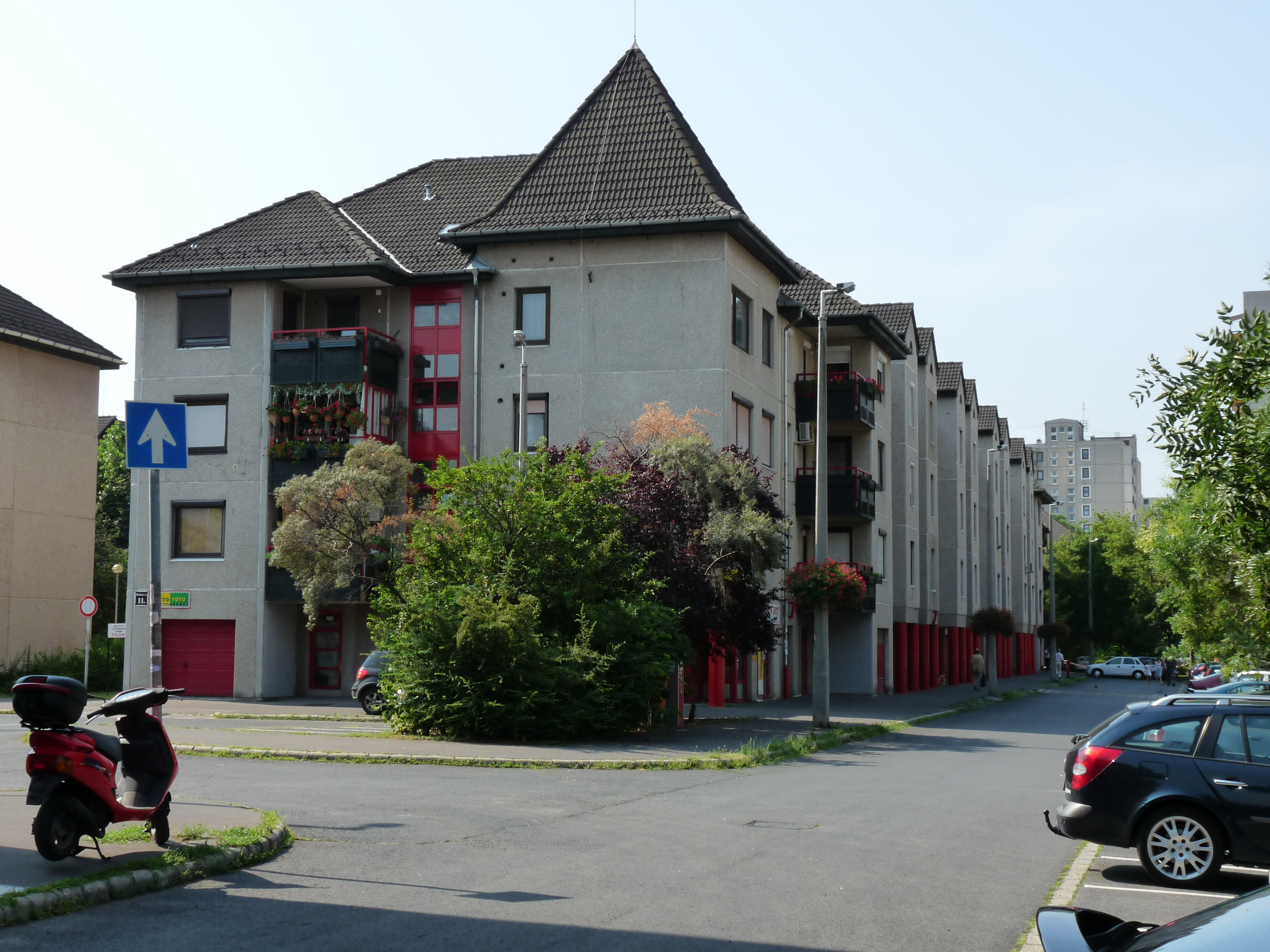 4-story panel building from 1989 in Budapest, 13. district (Vizafogó).